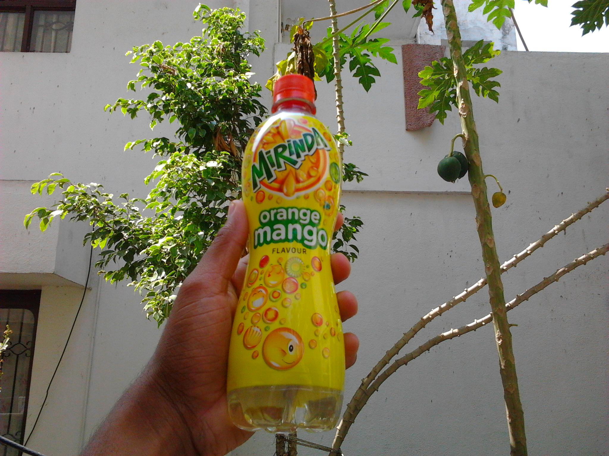 Photoed using Samsung Wave 525.